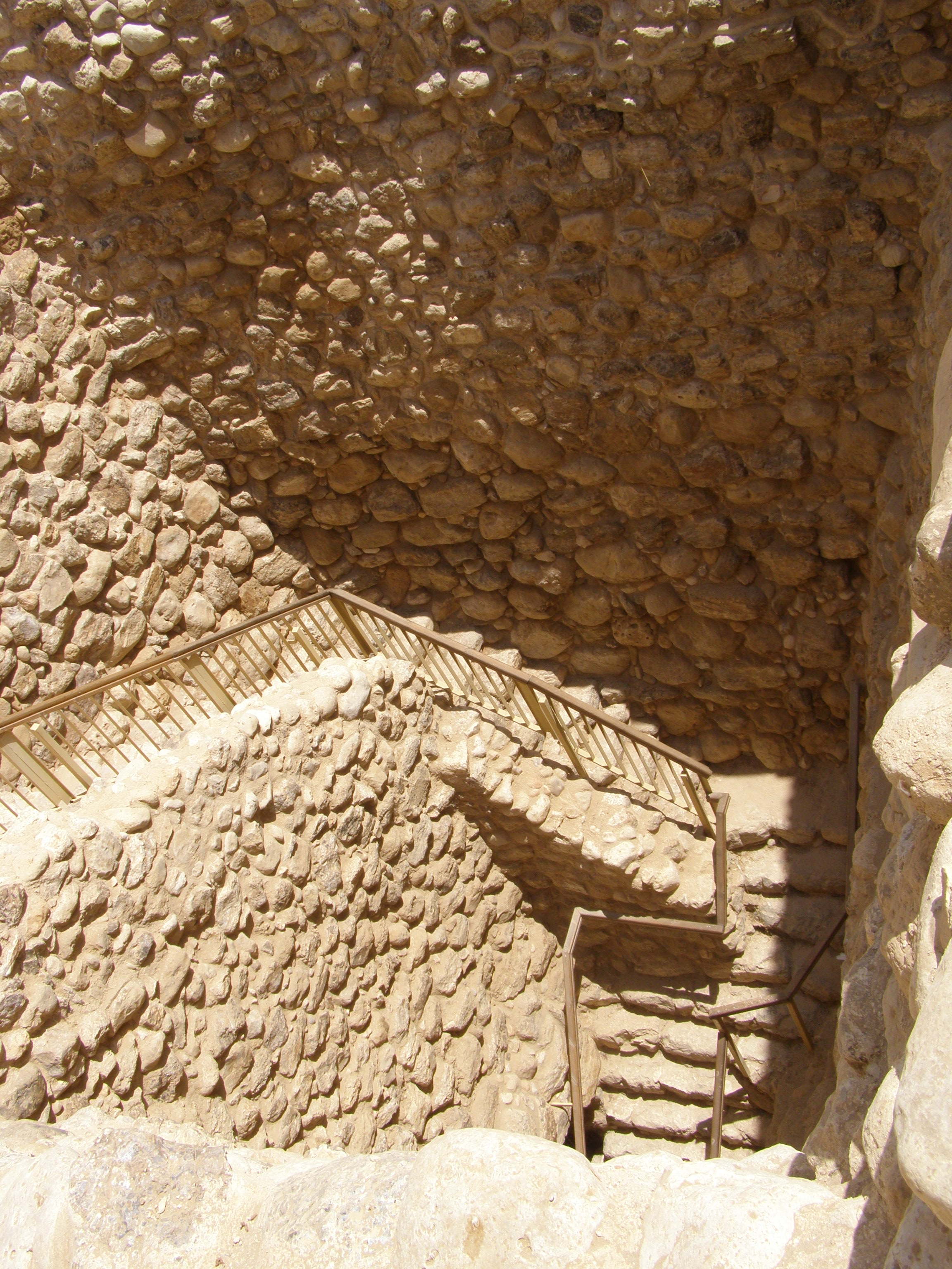 Tel Be'er Sheva, water system